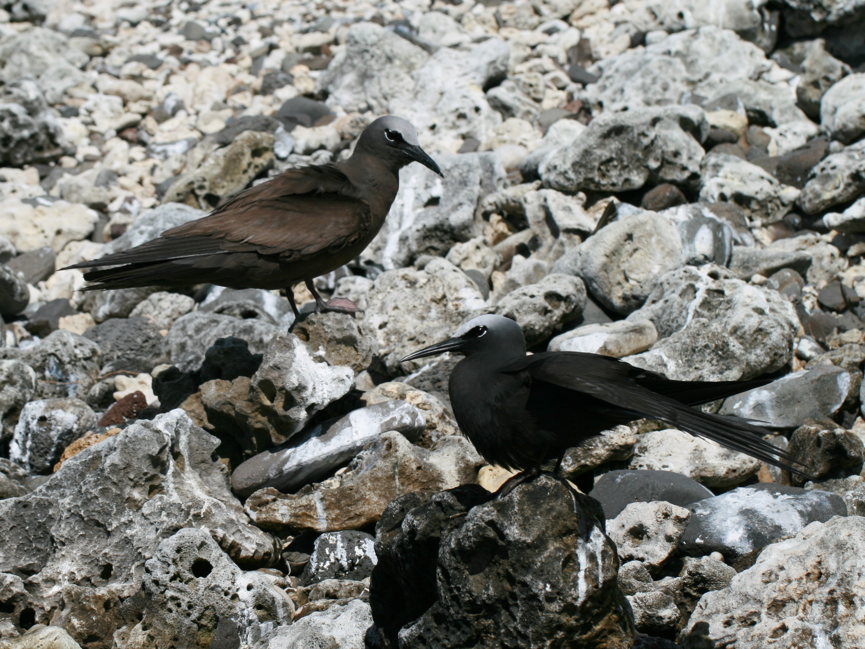 A Brown Noddy and a Black Noddy together on Lord Howe Island.